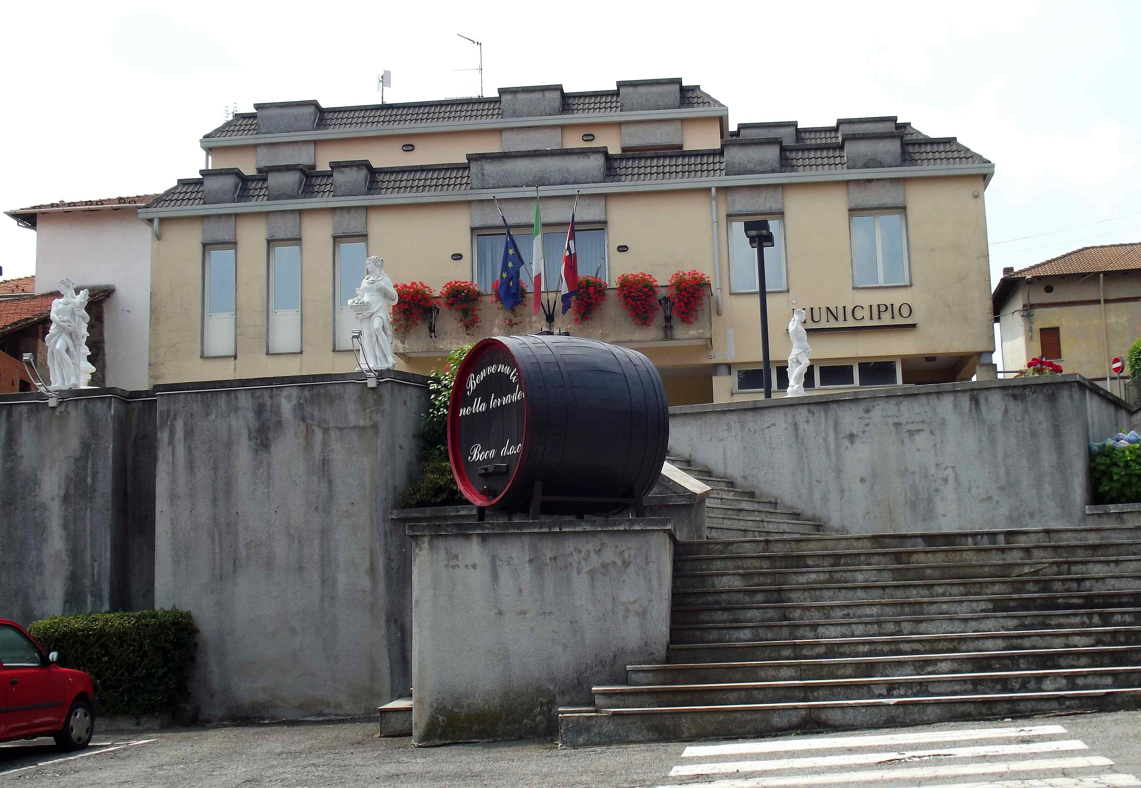 Boca (NO, Italy): town hall